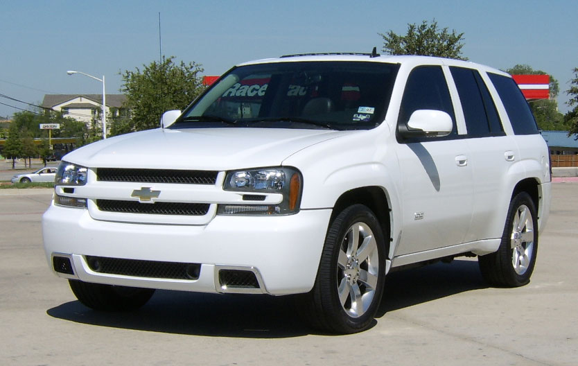 A 2006 Chevrolet Trailblazer SS. Photo taken and uploaded by user HumanZoom.